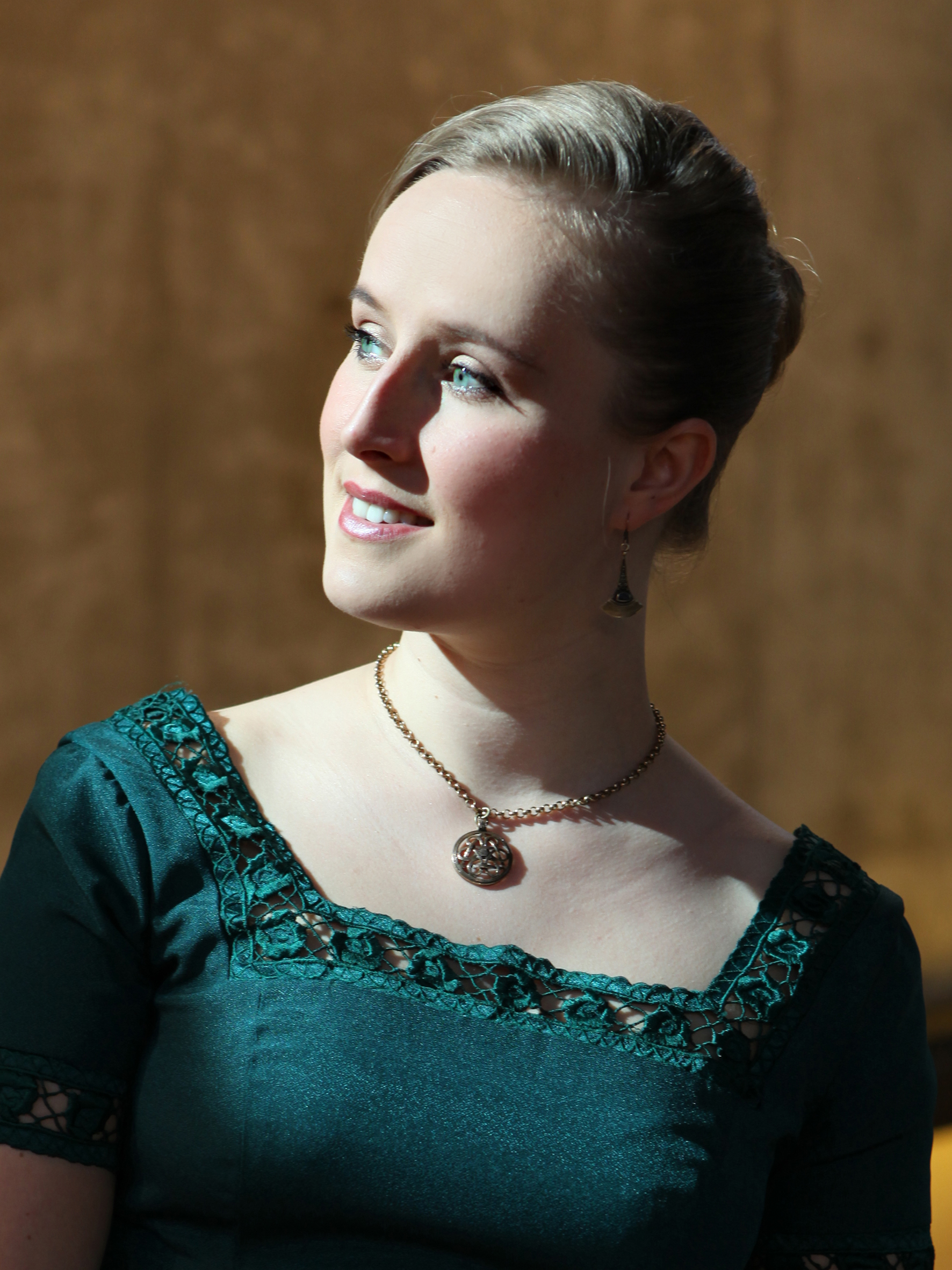 11.5.2011 Eeva Hartemaa